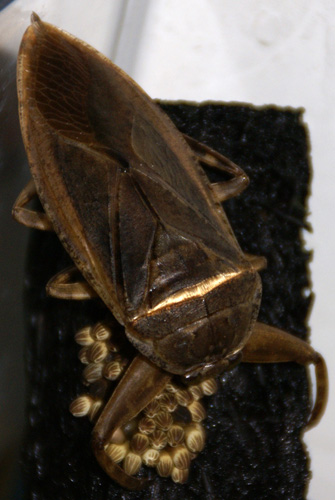 Lethocerus male with eggs